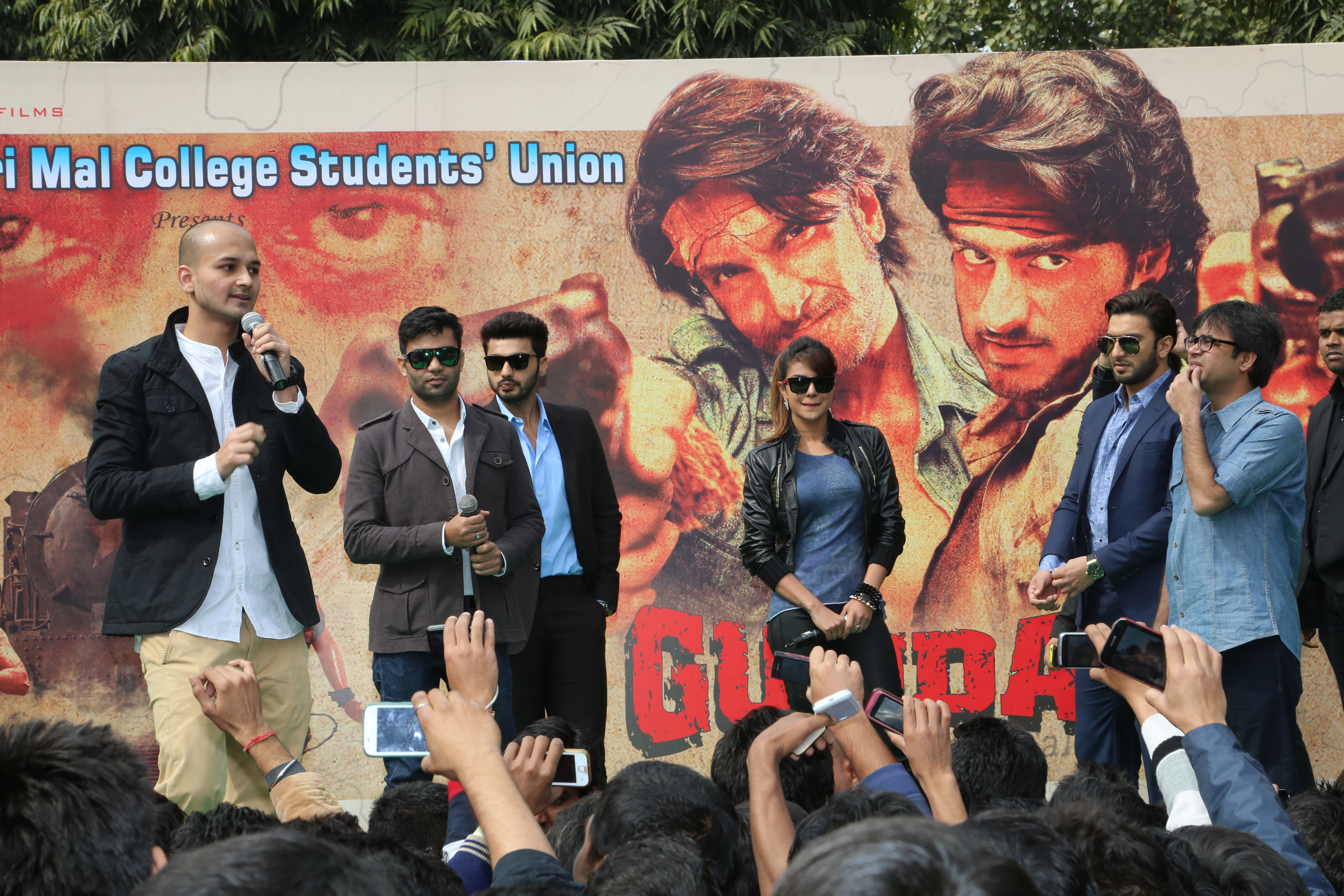 Bharat Jain presenting the cast of Gunday